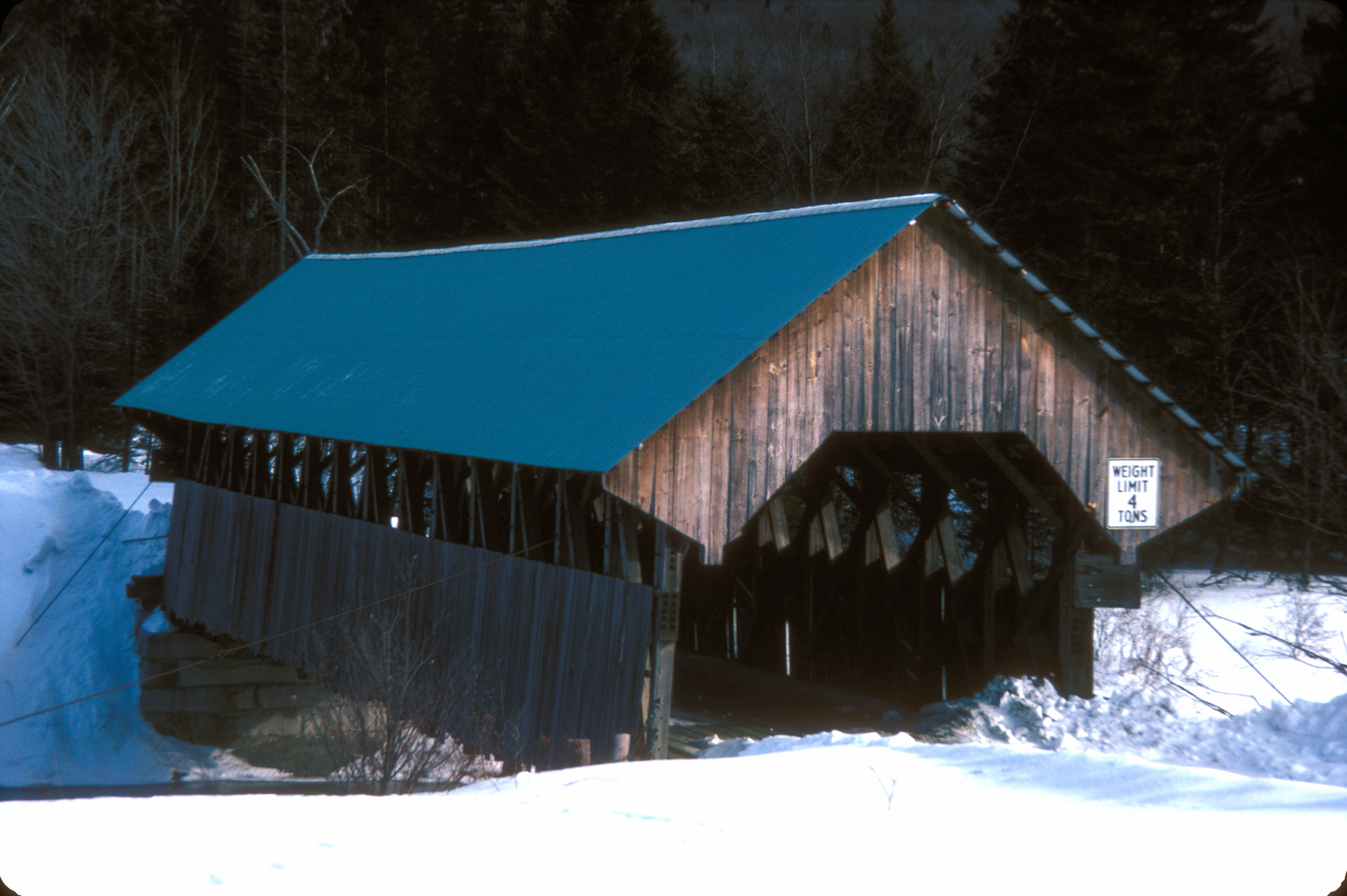 NEAR WILSON’S MILLS; 1901, 80’ PADDLEFORD OVER MAGELLOWAT RIVER